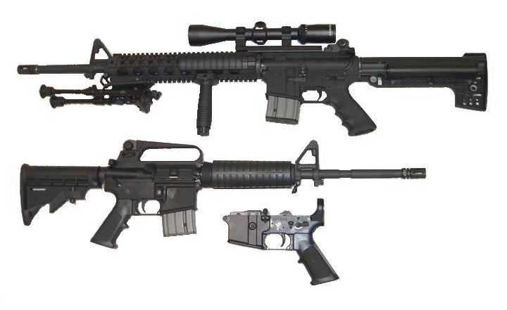 AR-15 rifle with a Stag lower receiver California legal (only with fixed 10-round magazine)